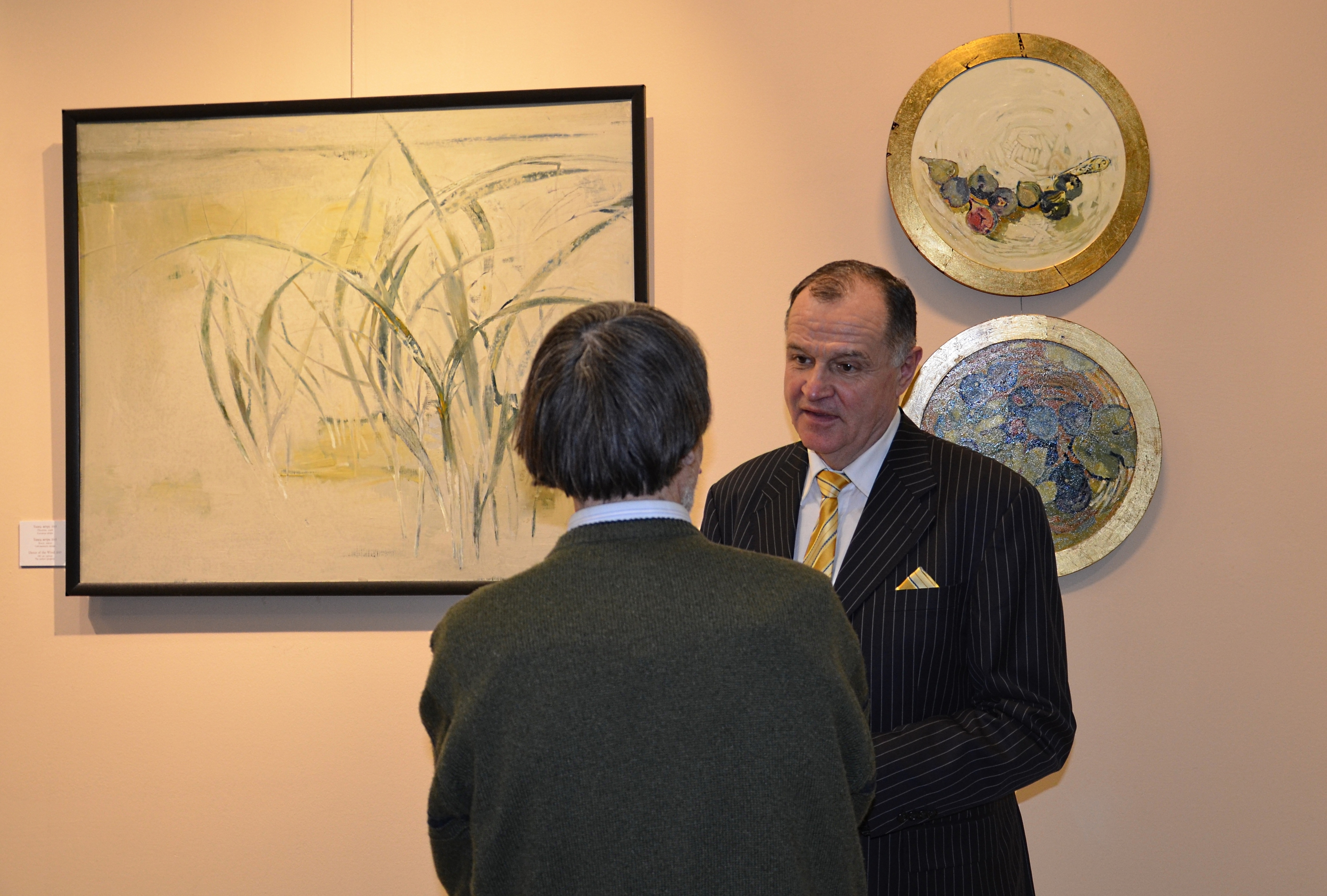 January 23, 2015 at the National Art Museum of Belarus opened an exhibition of paintings by Ilona Kosobuko "Dance of the Wind".